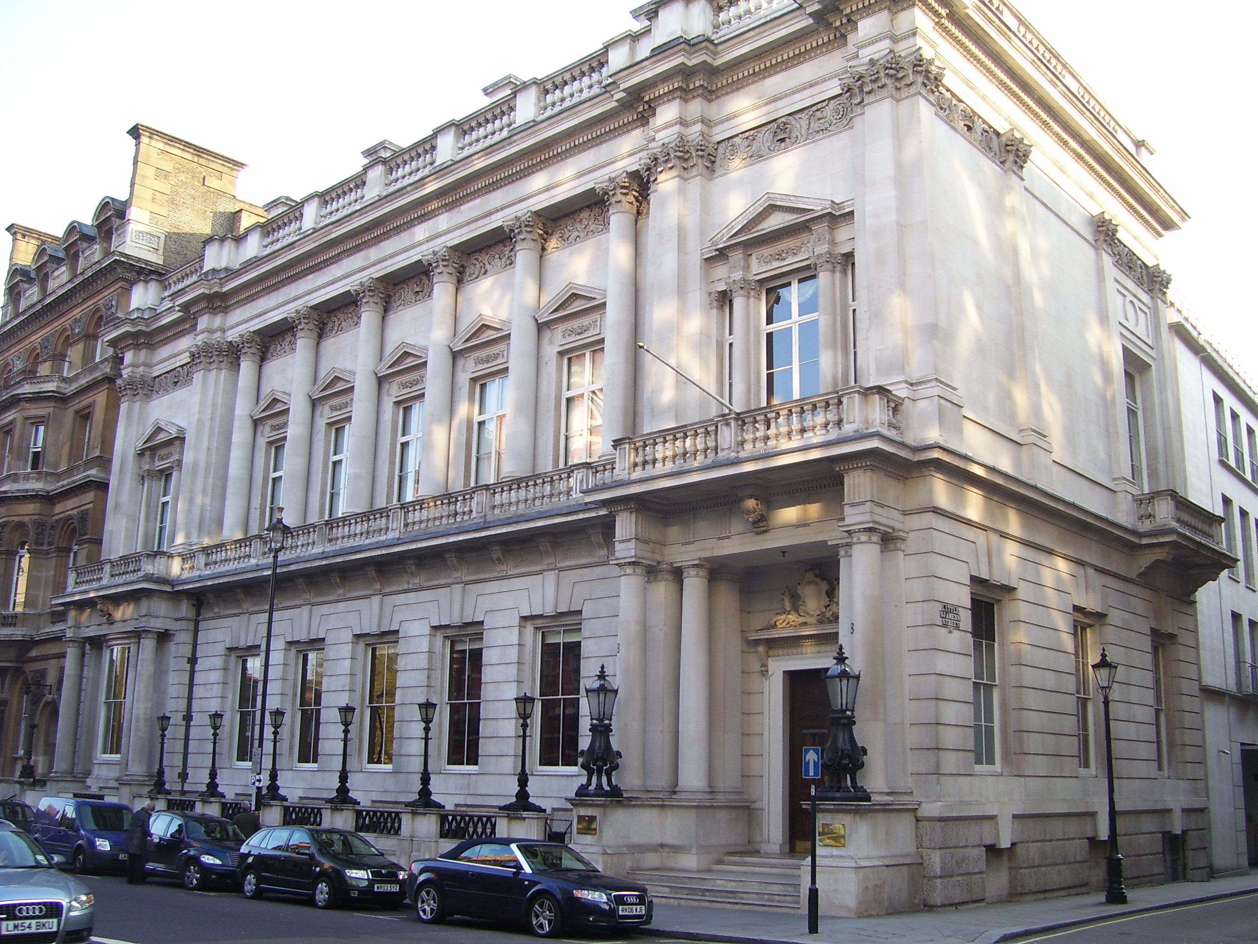 Original Conservative Club building - later used as the Bath Club, London. 74 St James Street.